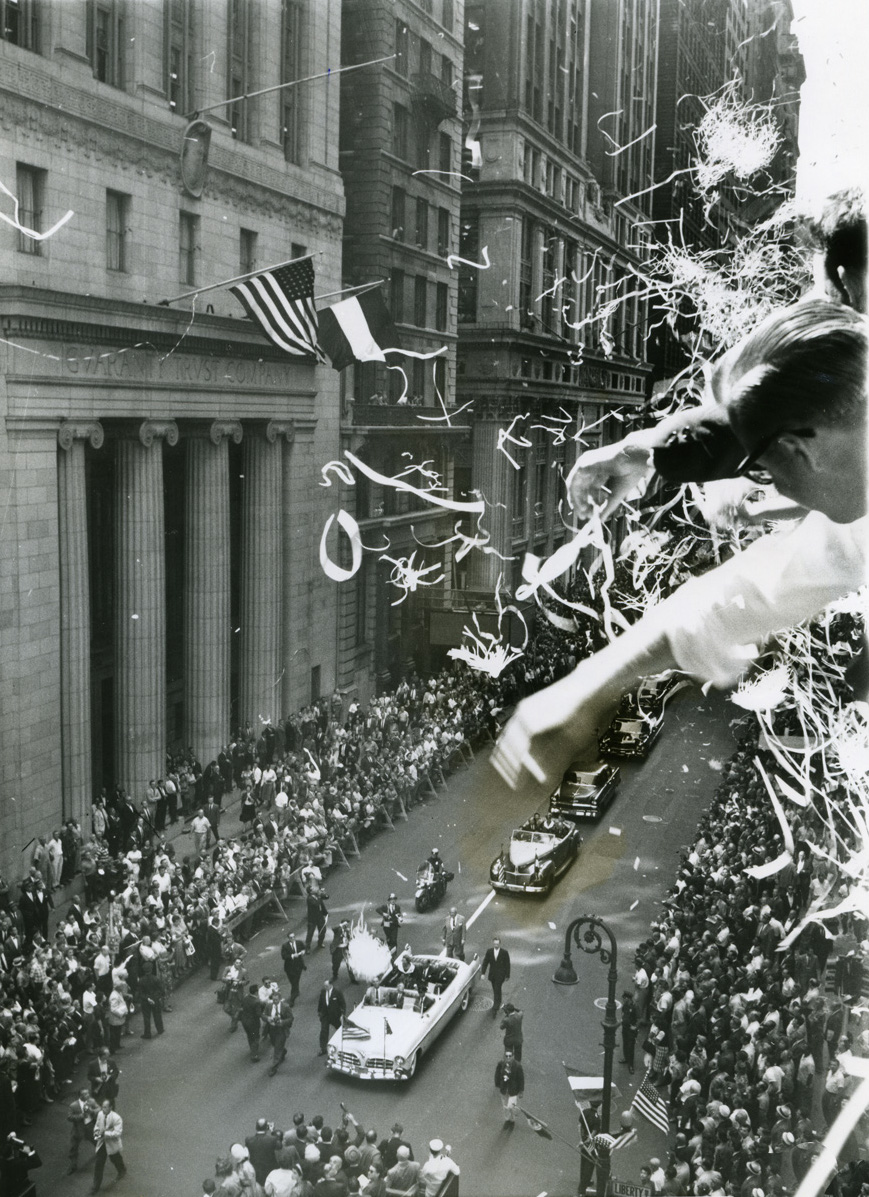 Ticker-tape parade, New York, Beatrix, princess of the Netherlands (present-day Queen). The Marine Midland Building now occupies the site of the Guaranty Trust Company Building.